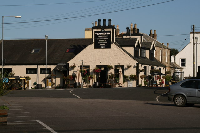 The Bladnoch Inn A favourite watering and eating place for locals